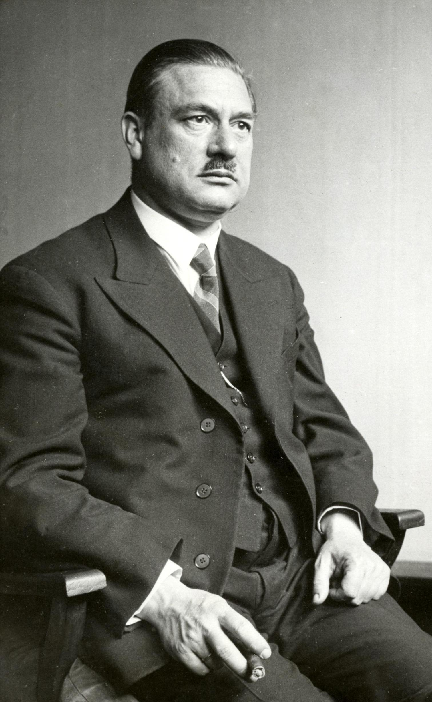 Peter Debye poses for the sculptor Tjipke Visser in Amsterdam